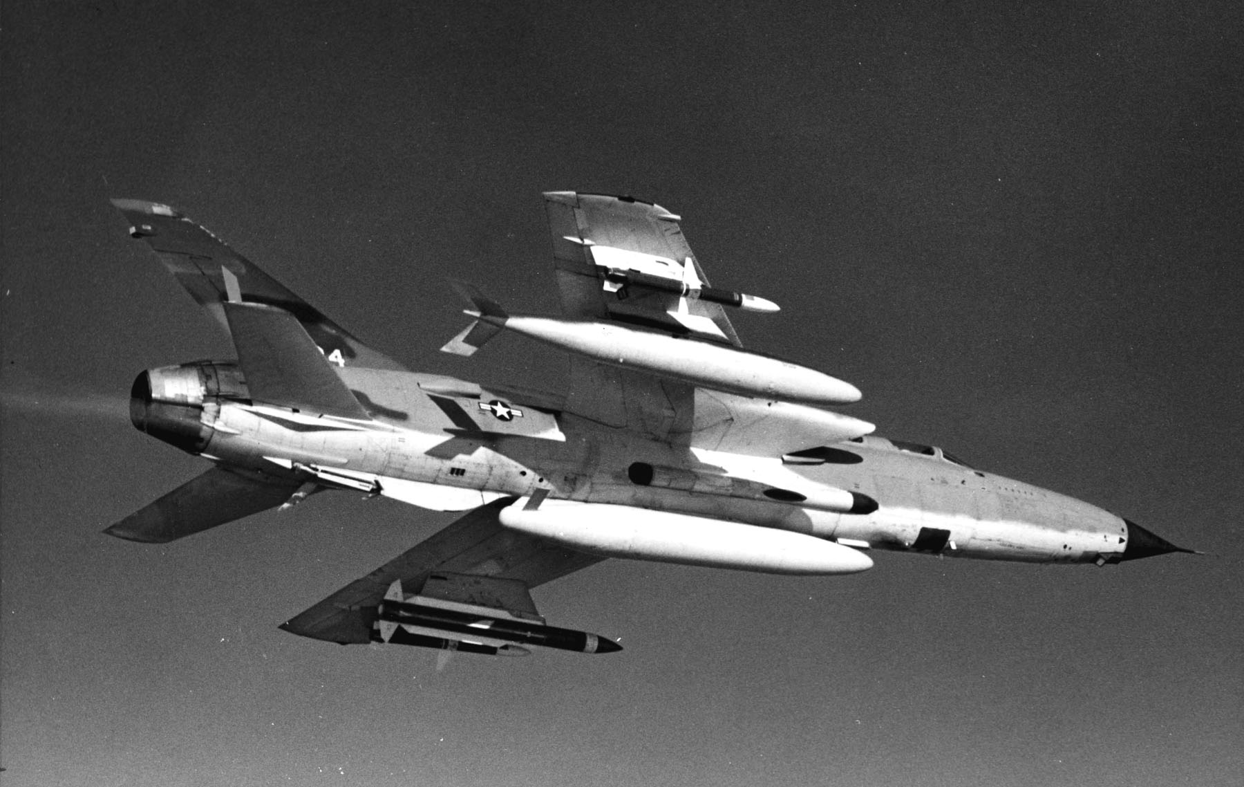 Republic F-105G in flight on May 5, 1970. External stores include QRC-380 blisters, AGM-45 Shrike and AGM-78B Standard ARM (Anti-Radiation Missile). (U.S. Air Force photo)